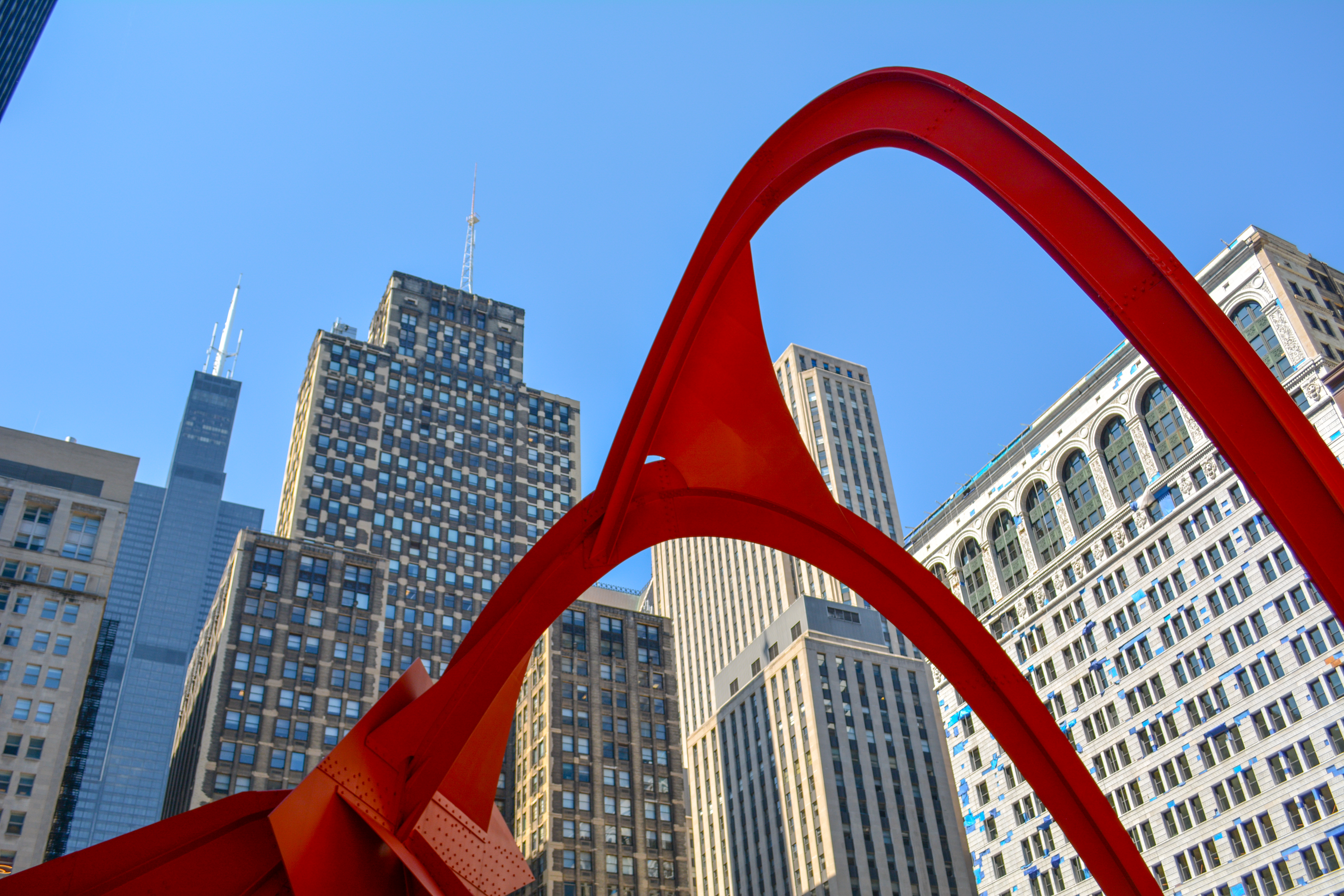 Chicago Aug 2016